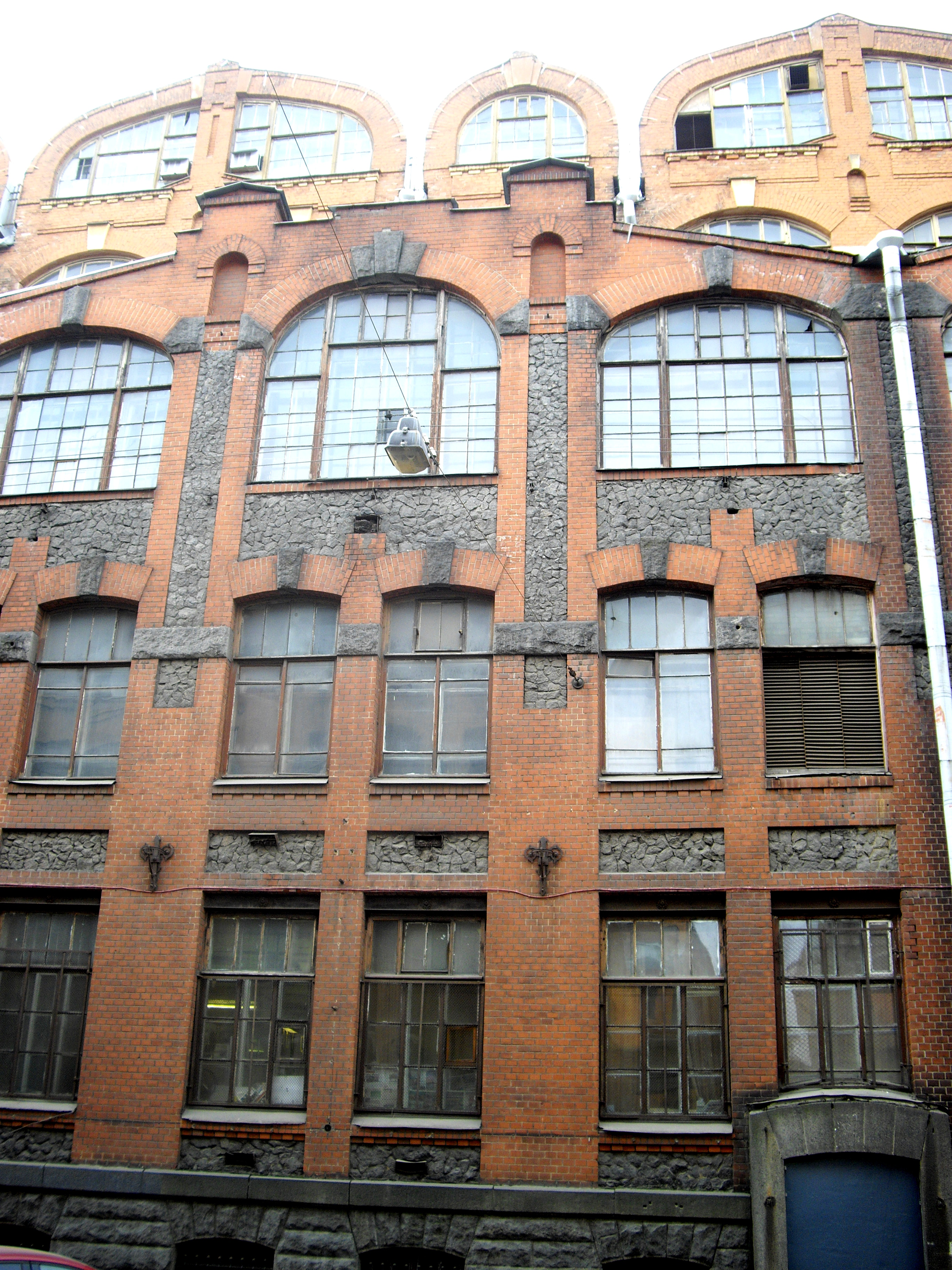 14, Yablochkova Street, Saint Petersburg, Russia - Electromechanical Works "Geisler & Co.", architect Rheinhold (Roman) Krieger, 1910-1911 (a regional object of architectural heritage; now "Kulakov Works").